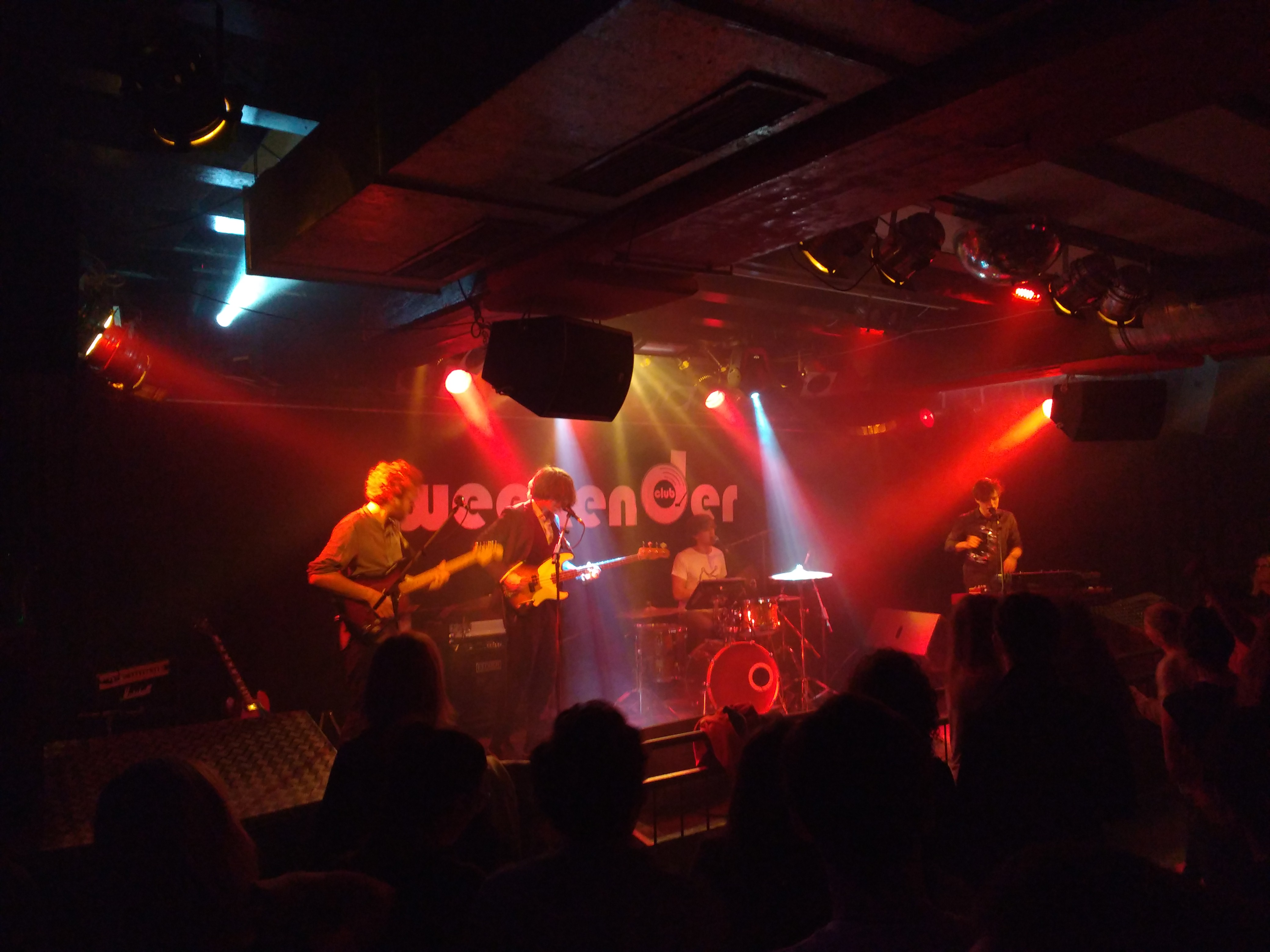 Carnival Youth in Weekender, Innsbruck